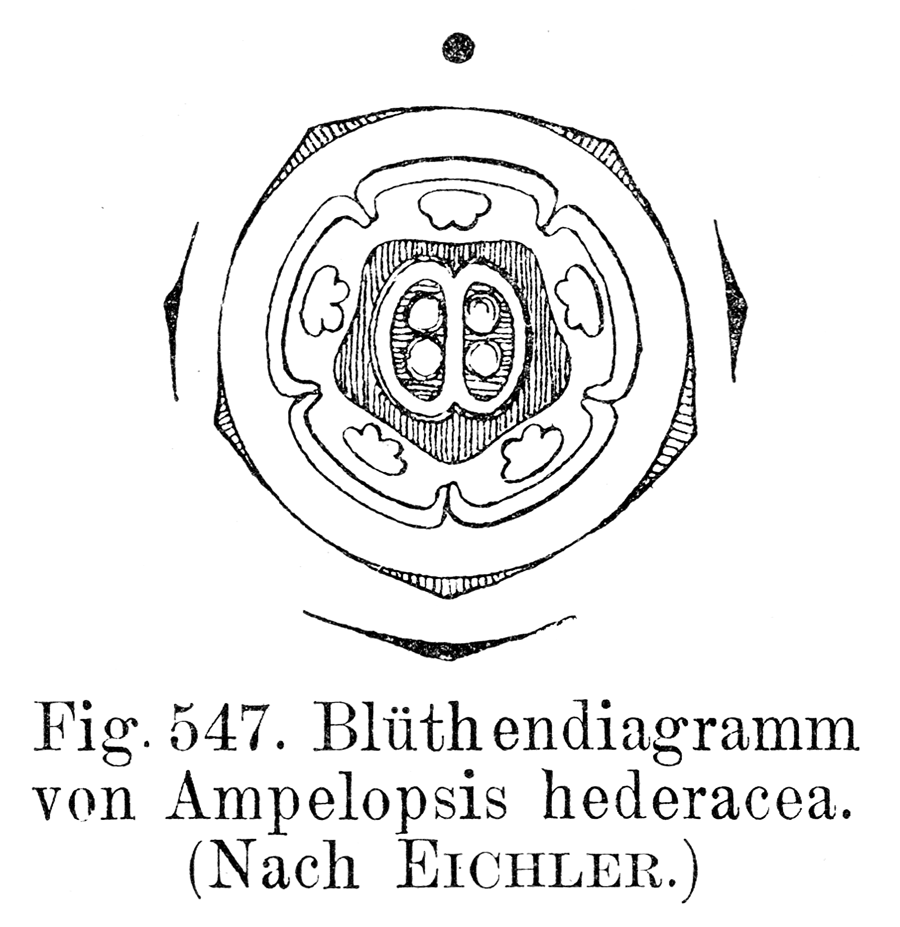 Diagram of a flower of Ampelopsis hederacea (Vitaceae) = Parthenocissus quinquefolia